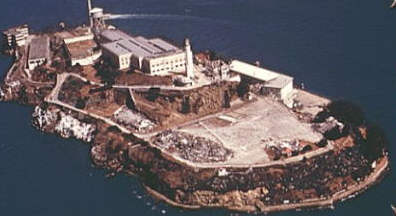 This image of Alcatraz Island comes from the GIMP photo archive